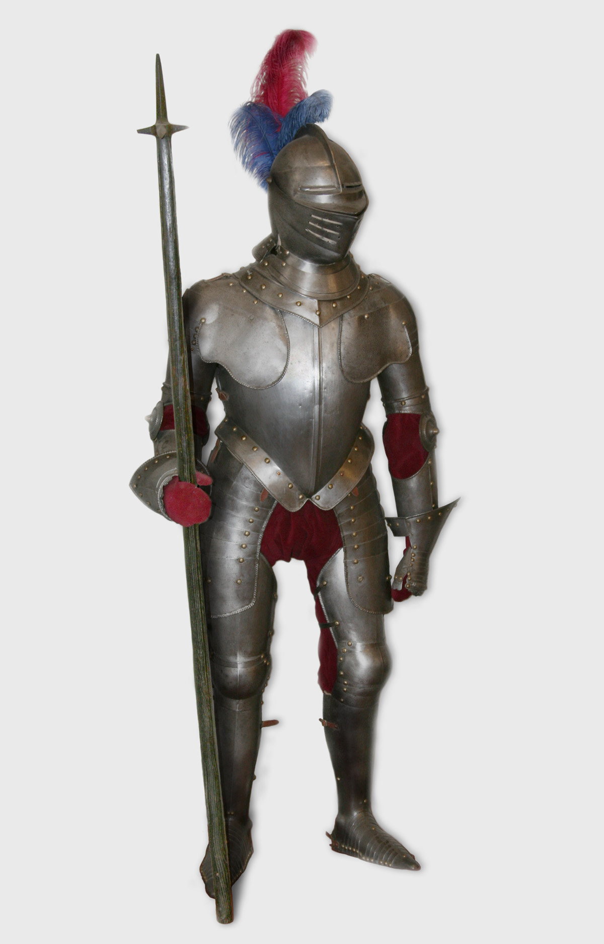 Photo: Body armor of the Livonian Order.